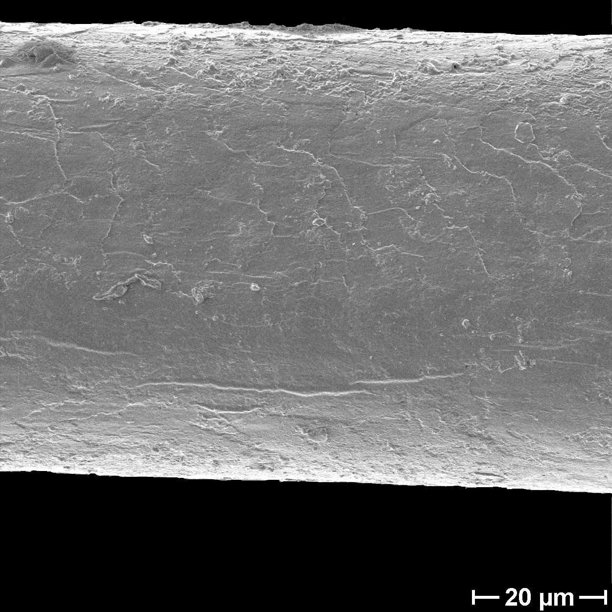 Scanning electron microscope image of a hair from a camel